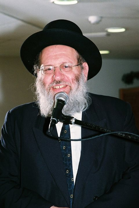 photo of Rabbi David Avraham Spektor, zt"l